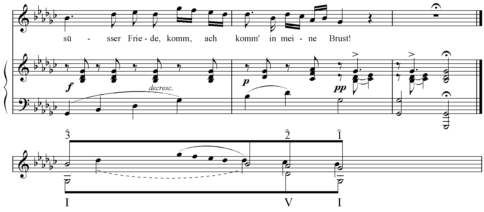 Schubert, Op. 4 n. 3